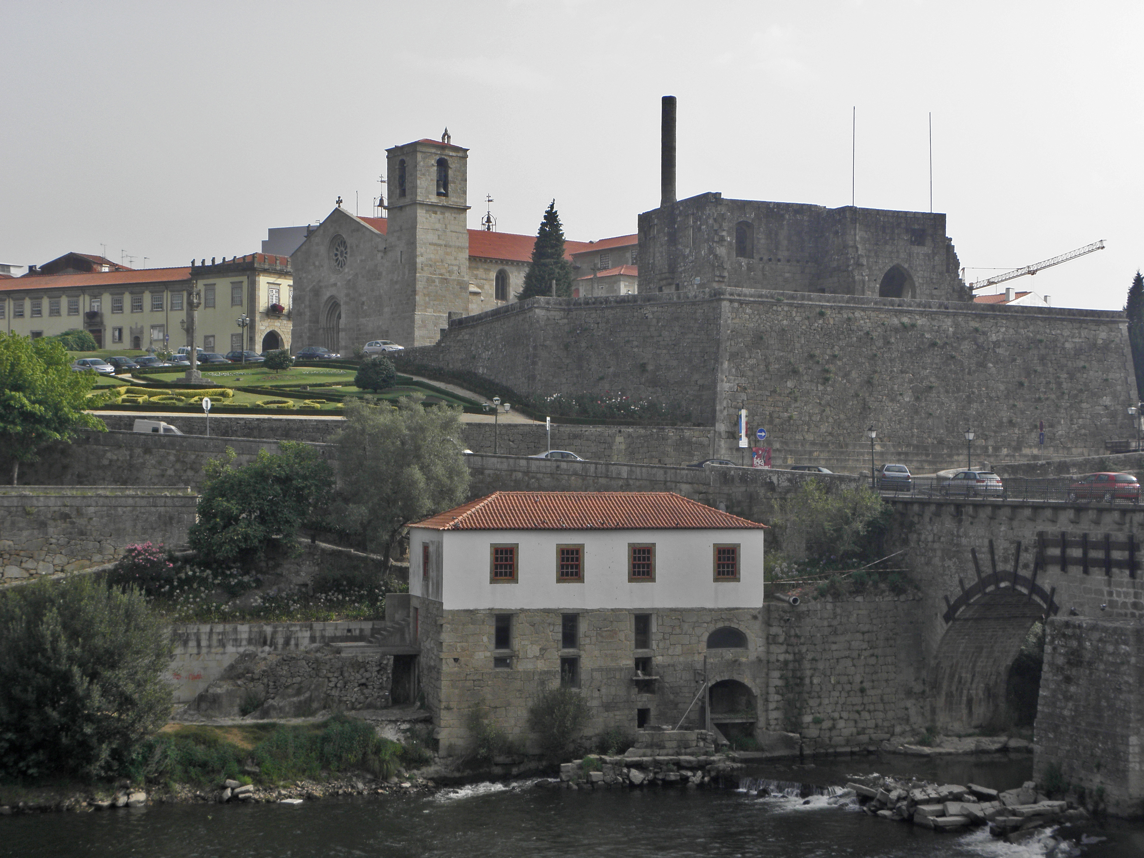 View of Barcelos, Portugal